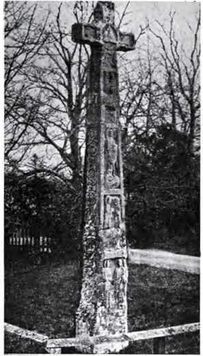 Captioned as "Fig. 1. The Ruthwell Cross, between 1823 and 1887."